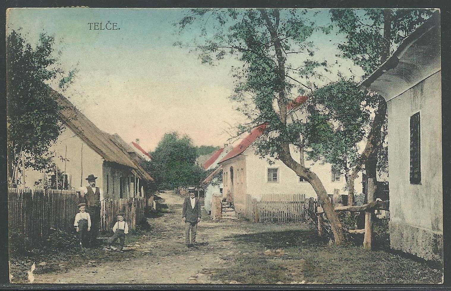 Postcard of Telče.